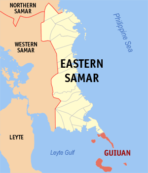 Map of Eastern Samar showing the location of Guiuan